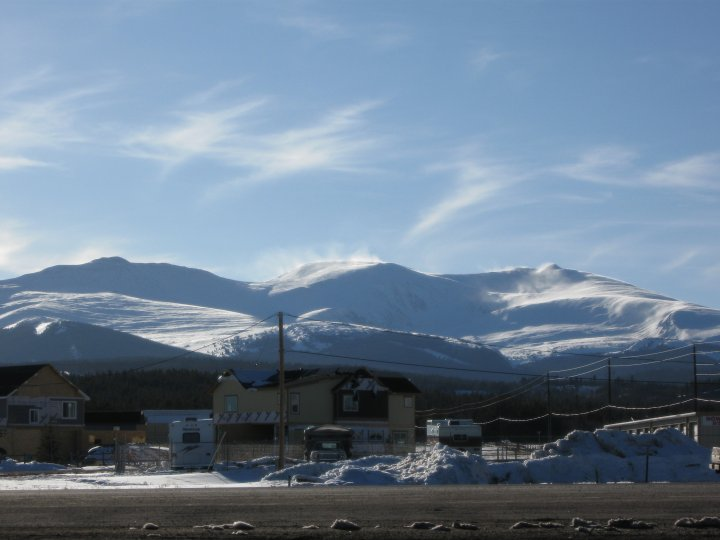 Rocky Mountains near Fairplay, Colorado.